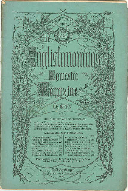 Title Page of Sept 1861 Issue of The Englishwoman's Domestic Magazine